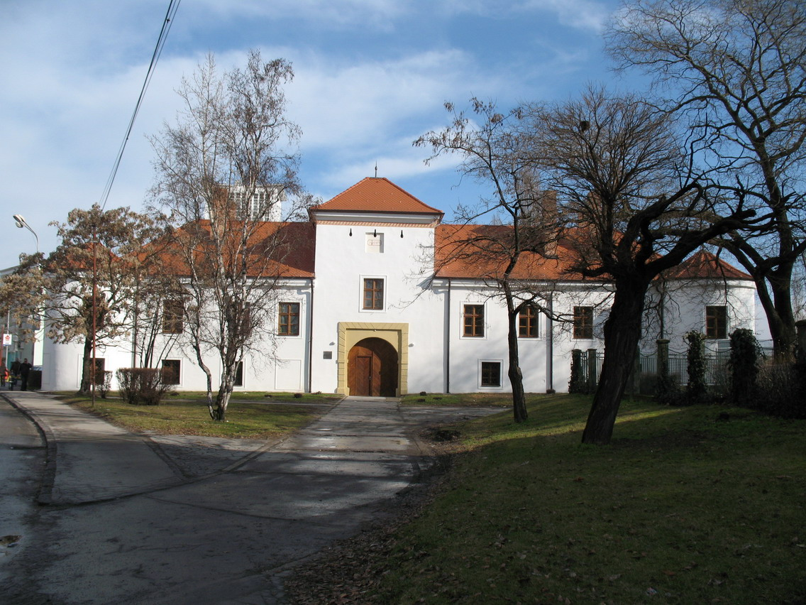 Photo of the castle (archives) in Šaľa